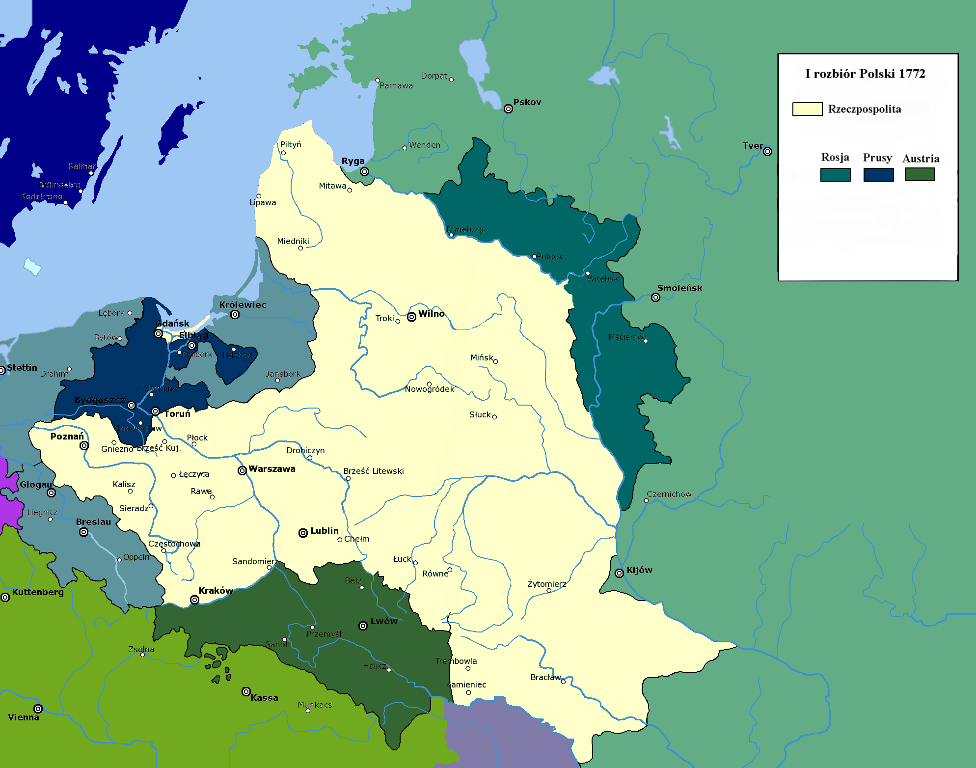 First Partition of Poland 1772